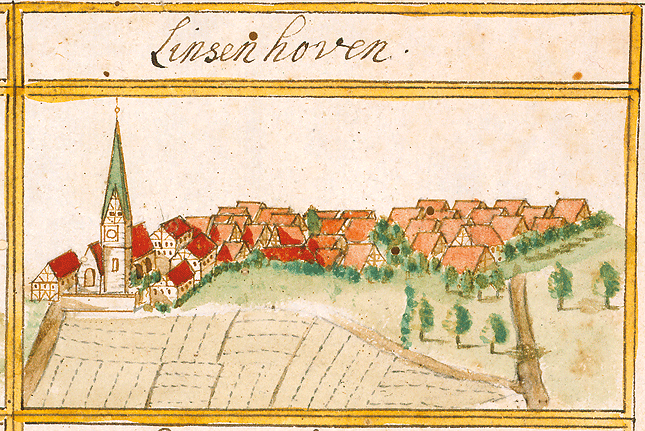 View of Linsenhofen, Frickenhausen, from the forest register books created by Andreas Kieser